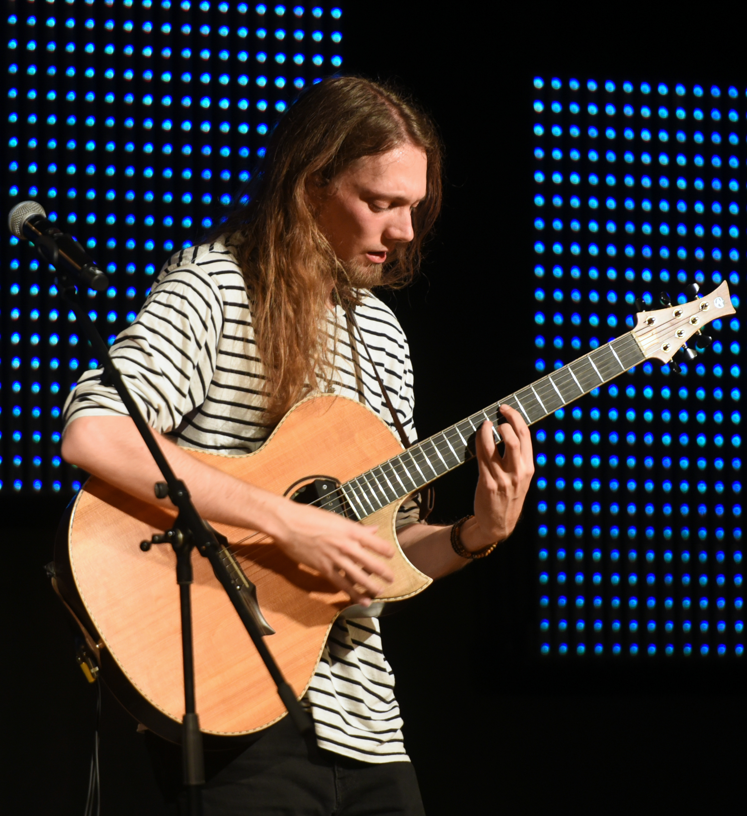 Mike Daves playing at Hamburger Gitarrenfestival 2018